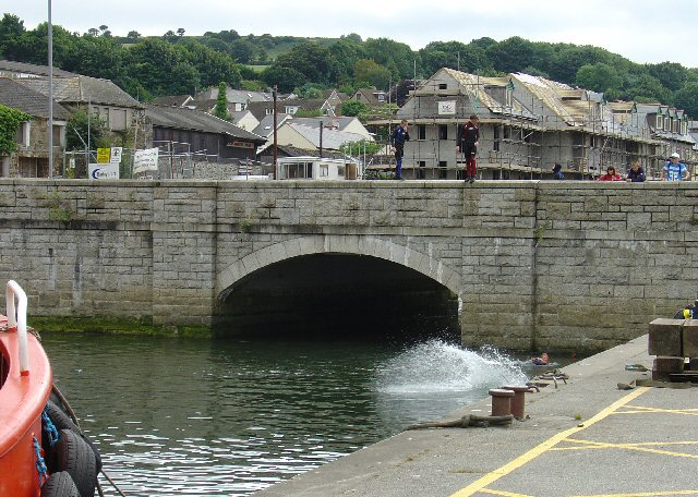 Penryn Bridge, Penryn, Falmouth, Cornwall. Next to the harbour masters office in Penryn Harbour. The lads on the bridge parapet are getting some early summer holiday fun by jumping into the water!